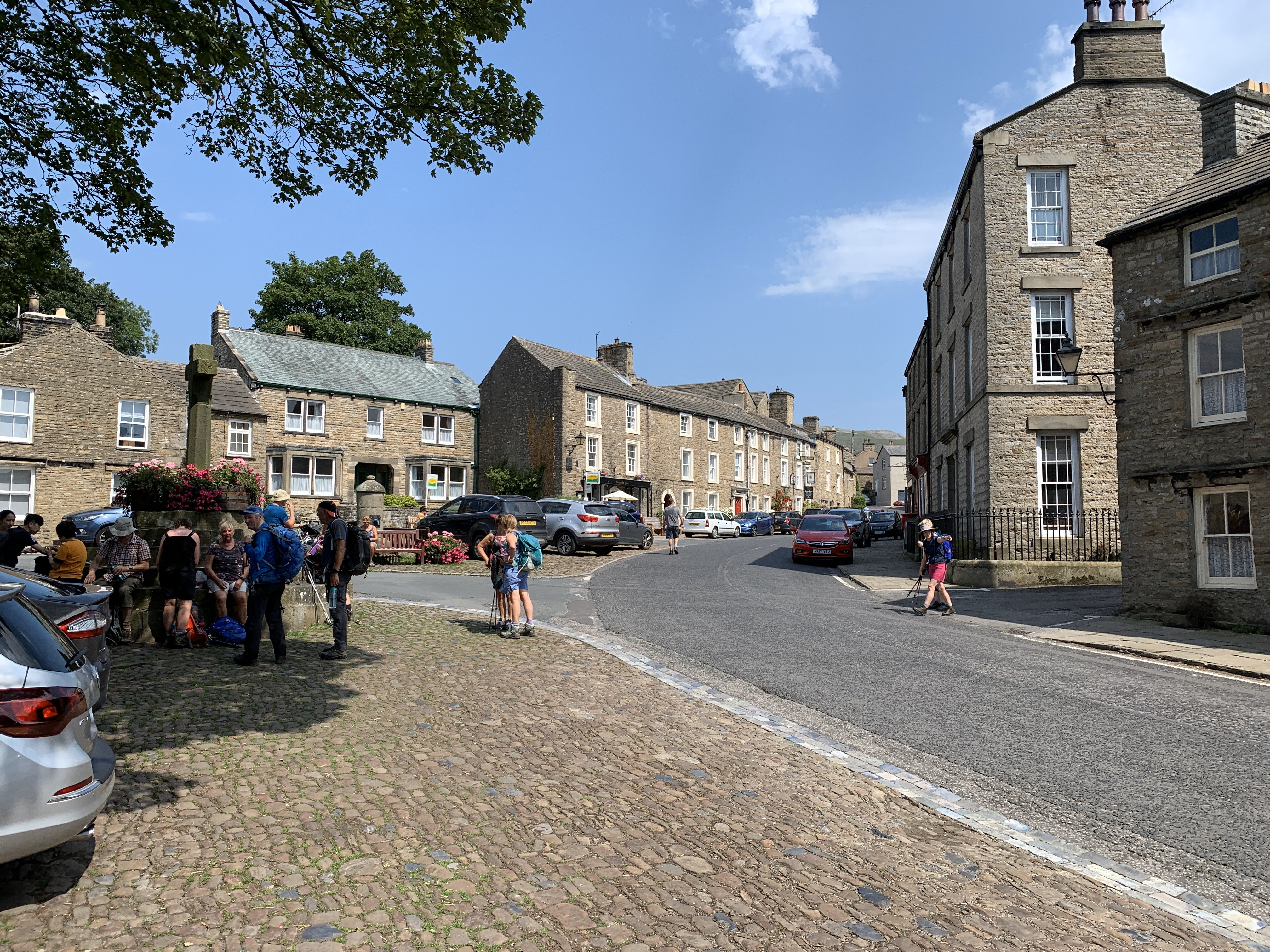 Askrigg in July 2019.